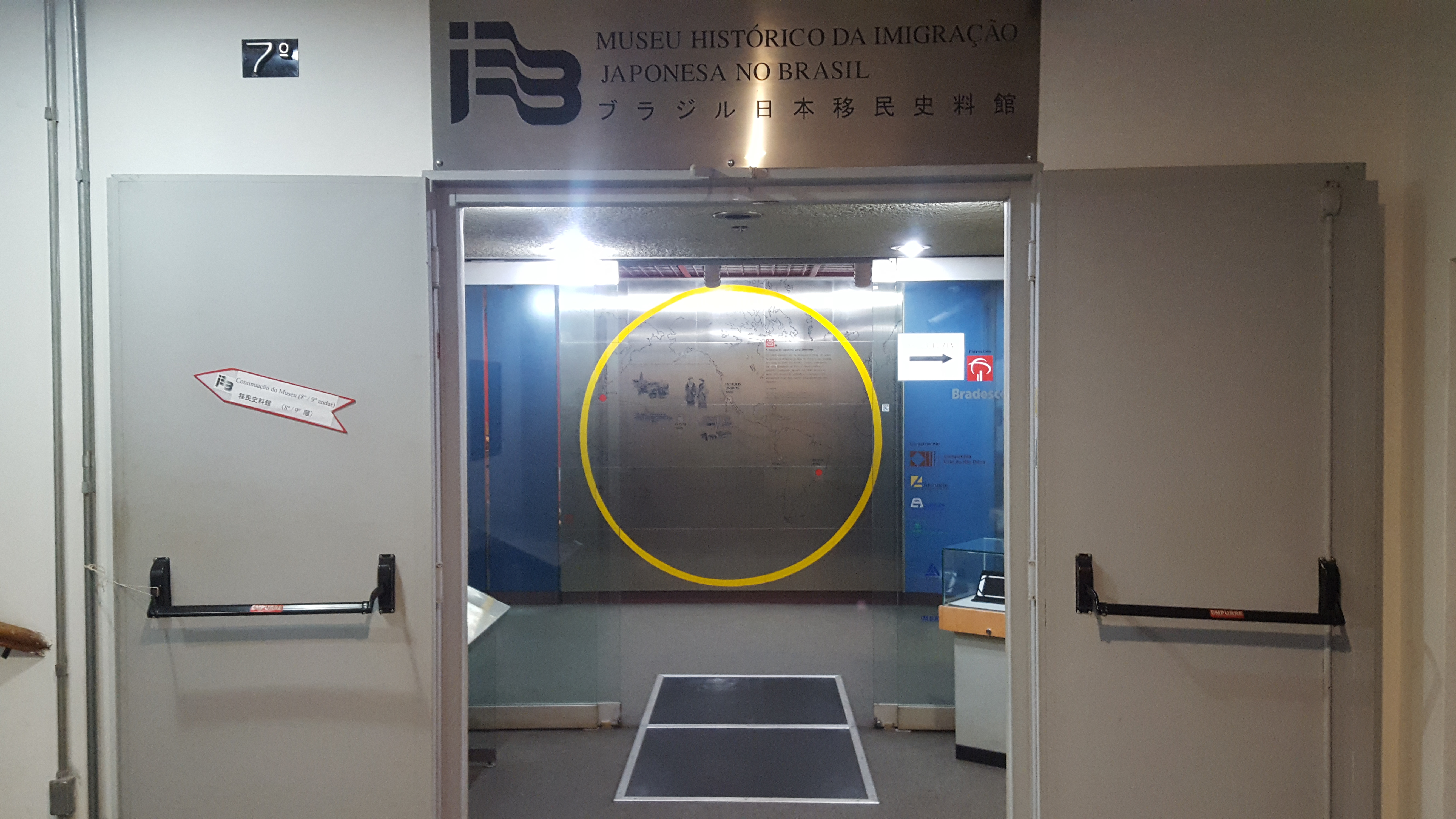 Entrada do Museu Histórico da Imigração Japonesa no Brasil.